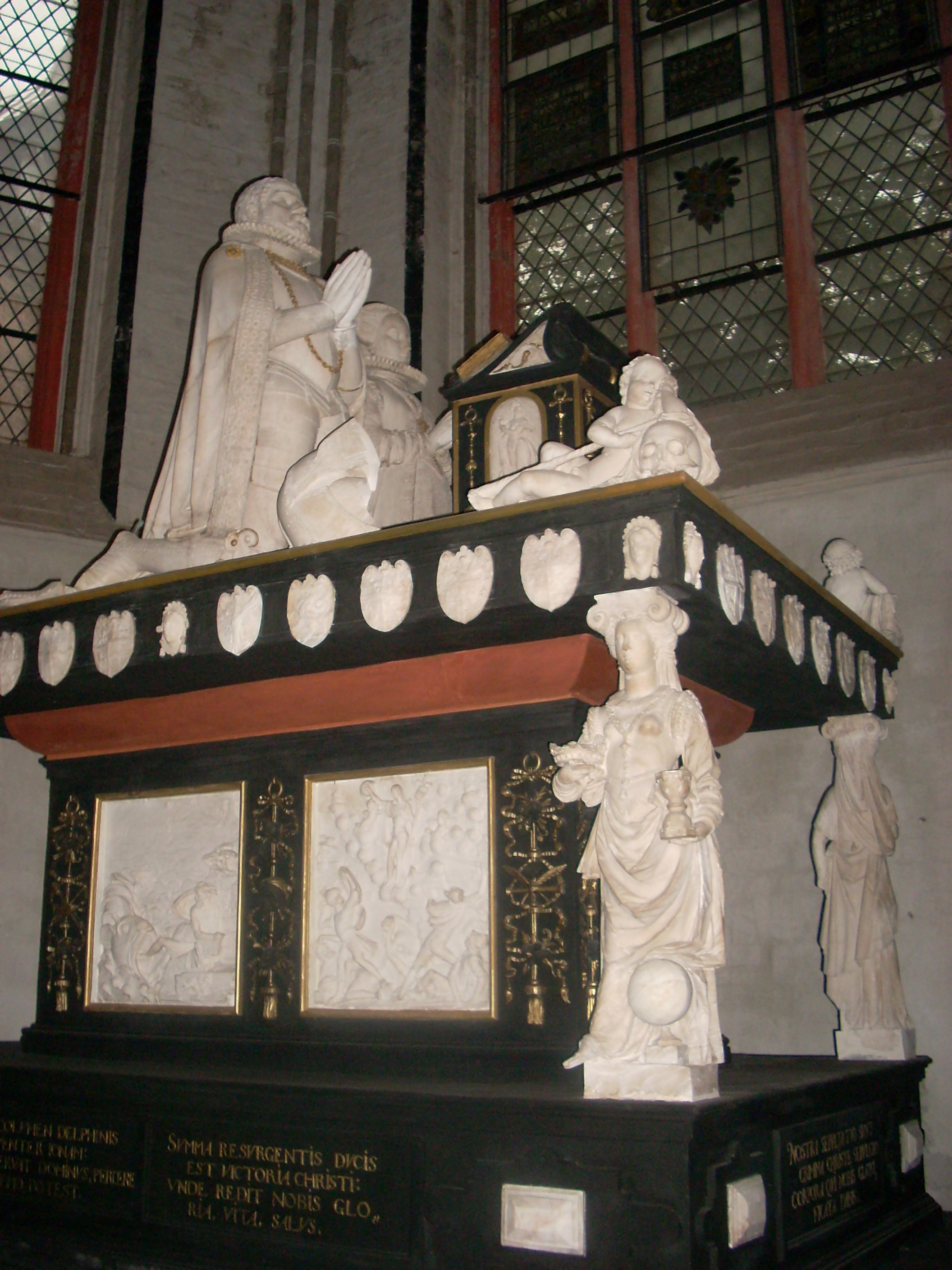 The Grave from Cristoph and his wife Elisabeth in the Schwerin Cathedral